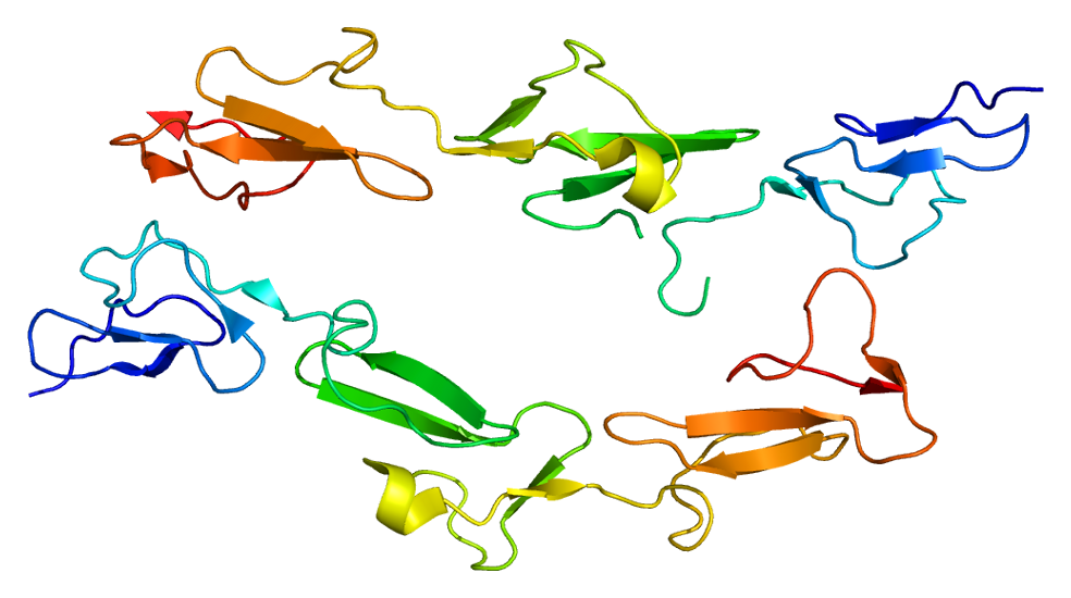 Structure of the CD97 protein. Based on PyMOL rendering of PDB 2bo2.